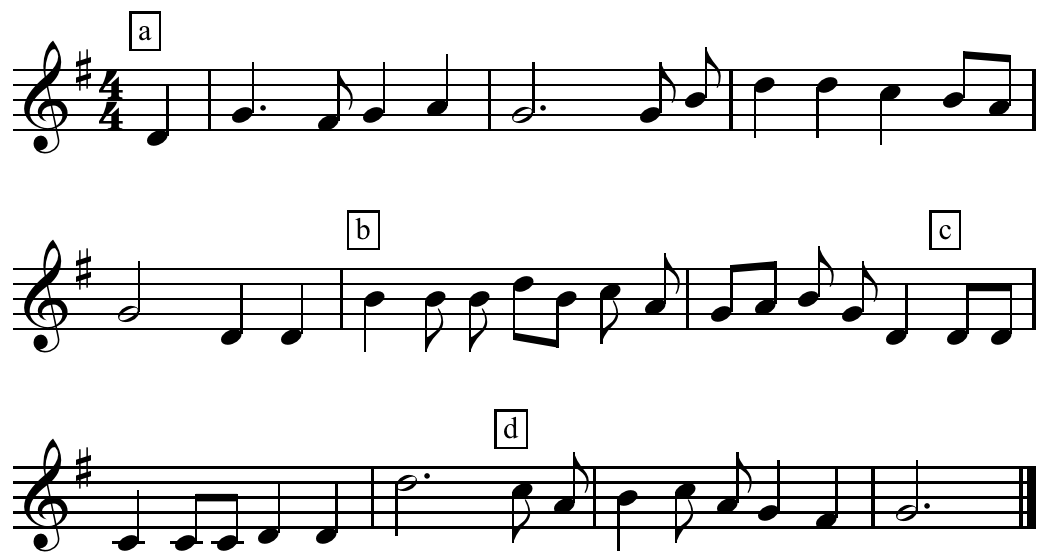 English folk song. "The Seeds of Love" (English folk song), nonrepetition. Created by Hyacinth (talk) 23:26, 10 May 2011 (UTC) using Sibelius 5. See also: File:The_Seeds_of_Love_repetition.mid